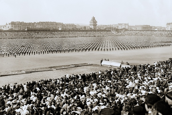 Sokol Slet in Prague, 1920 author: Šechtl and Voseček Uploaded with approval of the inheritors of copyright